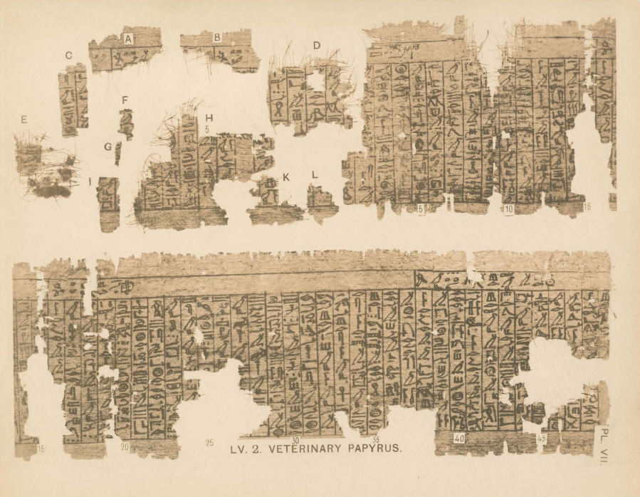 Papyrus Kahun LV. 2; veterinary papyrus; 12th Dynasty